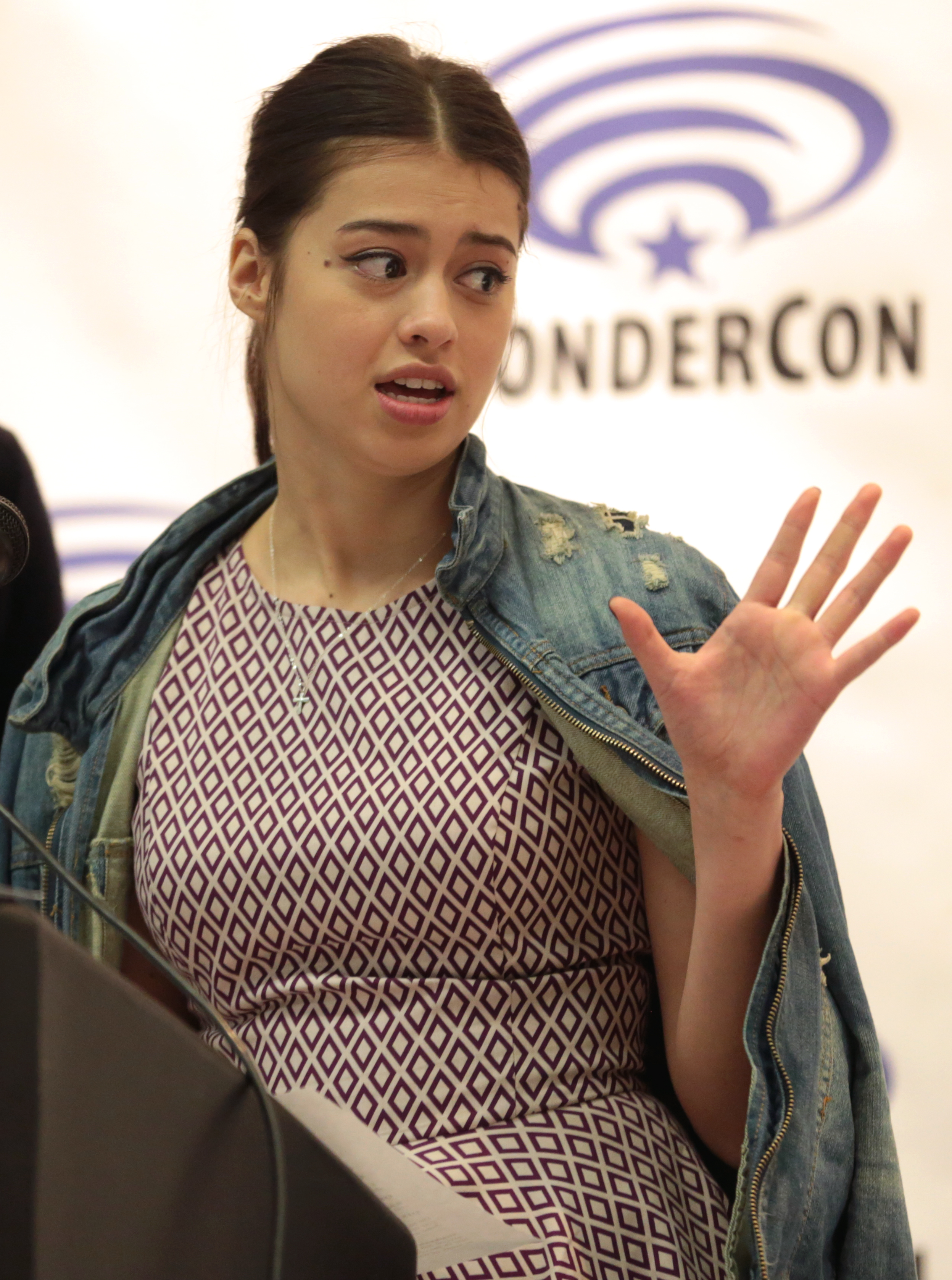 Amber Midthunder speaking at the 2017 WonderCon in Anaheim, California.